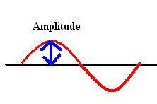 a picture that demonstrates what an amplitude is